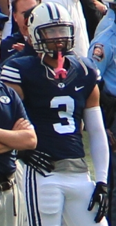 BYU linebacker Kyle Van Noy in 2012.